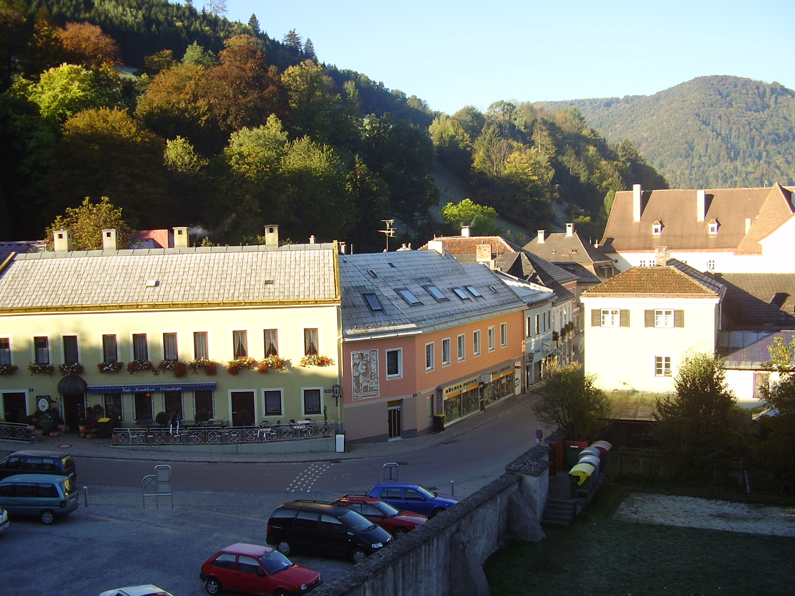 The View from the Abbey in Lilienfeld in Austria Ausblick von der Stift Lilienfeld in Österreich